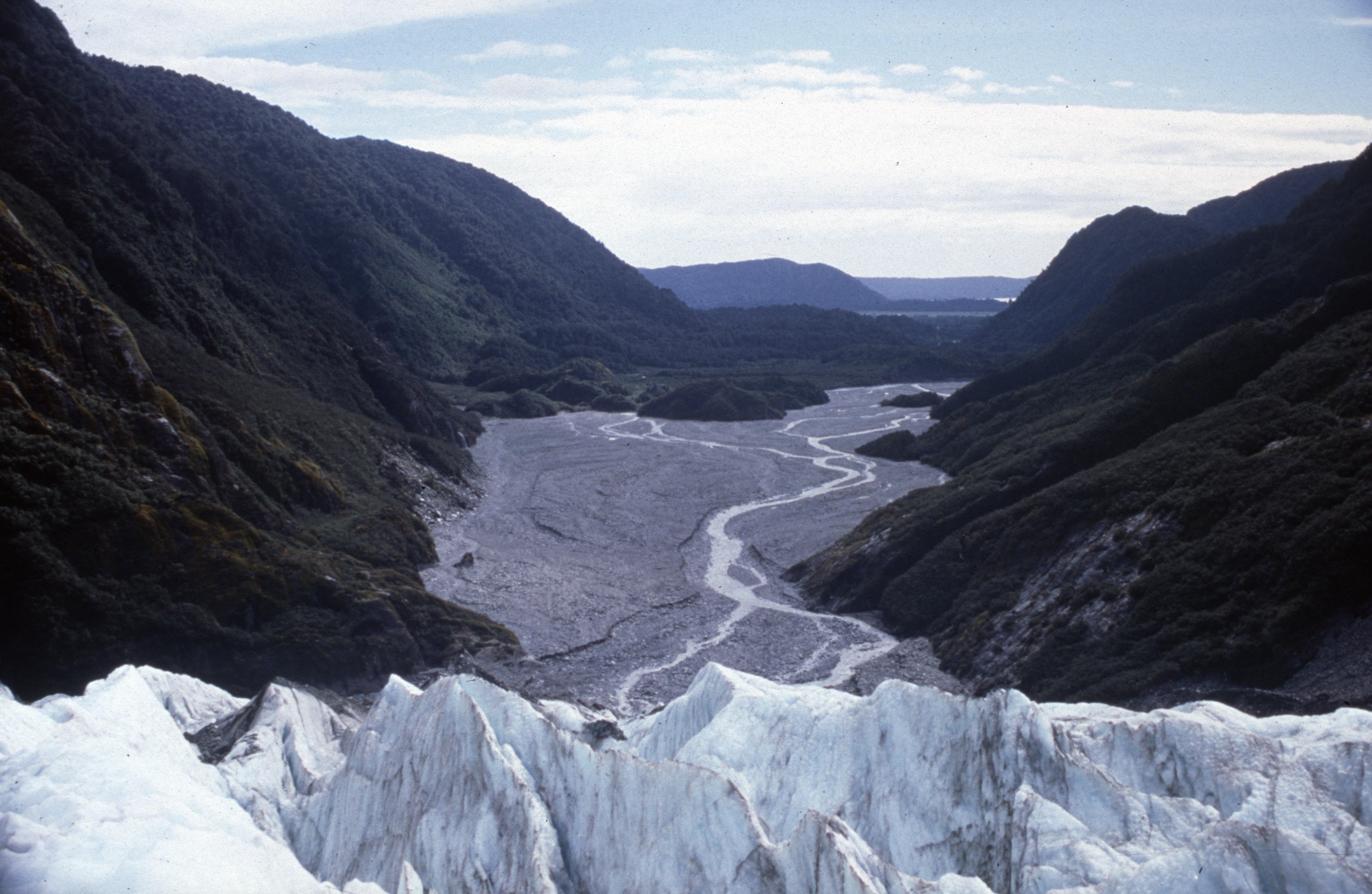 View from Franz Josef Glacier, New Zealand.